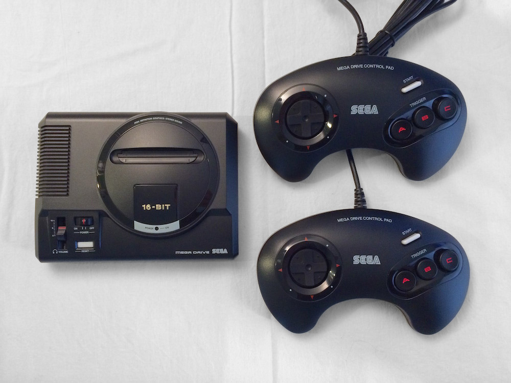 Console with controller